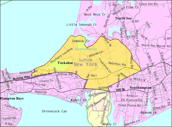 U.S. Census 2000 reference map for Tuckahoe